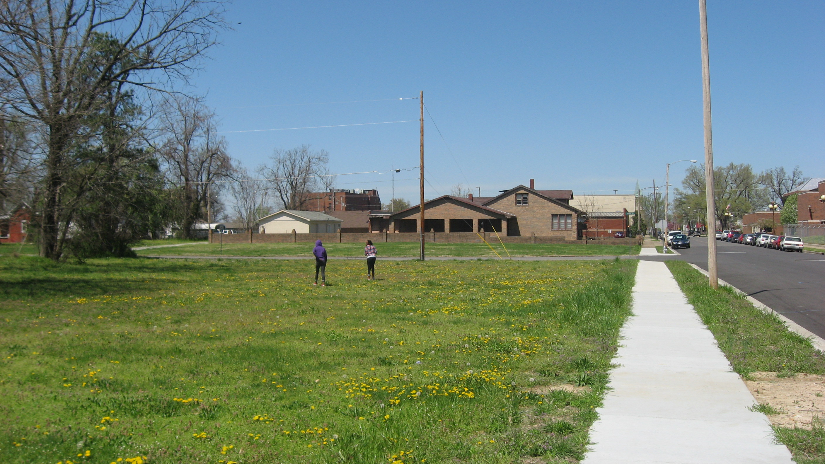 Overview of the site of the Paducah Masonic Temple, located at 501-505 S. Seventh Street in Paducah, Kentucky, United States. Built in 1904, it was listed on the National Register of Historic Places in 2002, and despite its destruction it has not yet been removed.